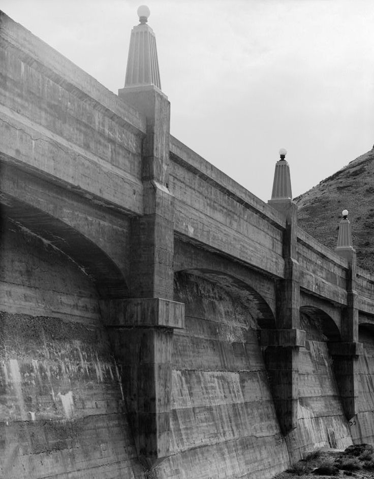 Owyhee Dam crest. DETAIL OF DOWNSTREAM PARAPET WALL, SHOWING BLIND ARCADE AND CORBELLED LIGHT STANDARD BASES. VIEW TO SOUTH.